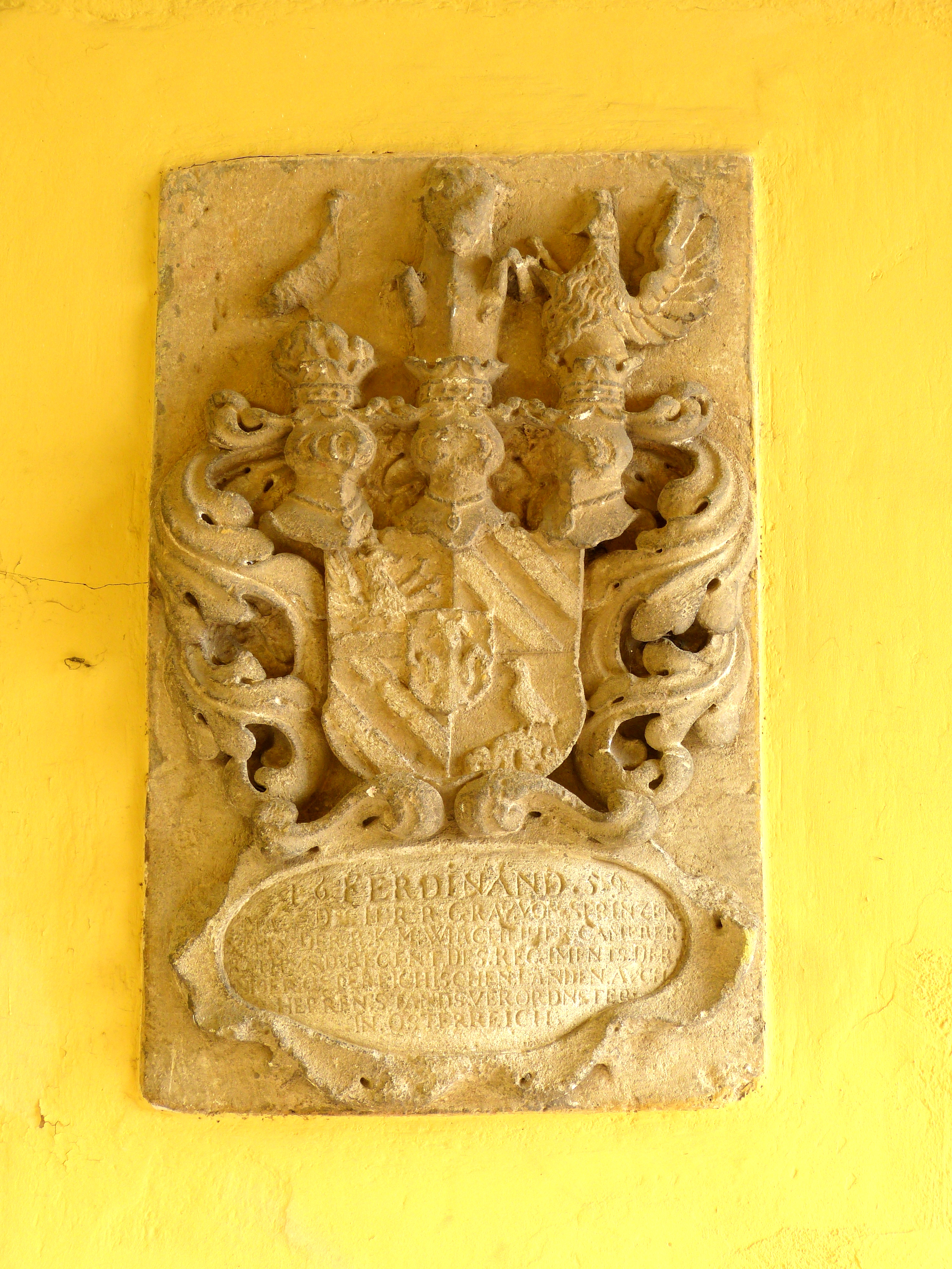 Waidhofen an der Thaya ( Lower Austria ). Castle ( 1770 ) by Andreas Zach - Coats of arms ( 1659 ) of Ferdinand Maximilian von Sprinzenstein.